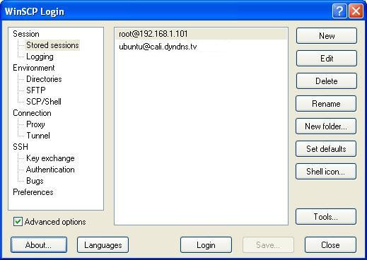 WinSCP - The Login window